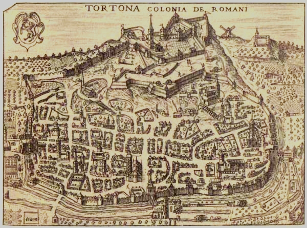 Incisione su rame della Terdona medioevale Joost de Hondt 1623